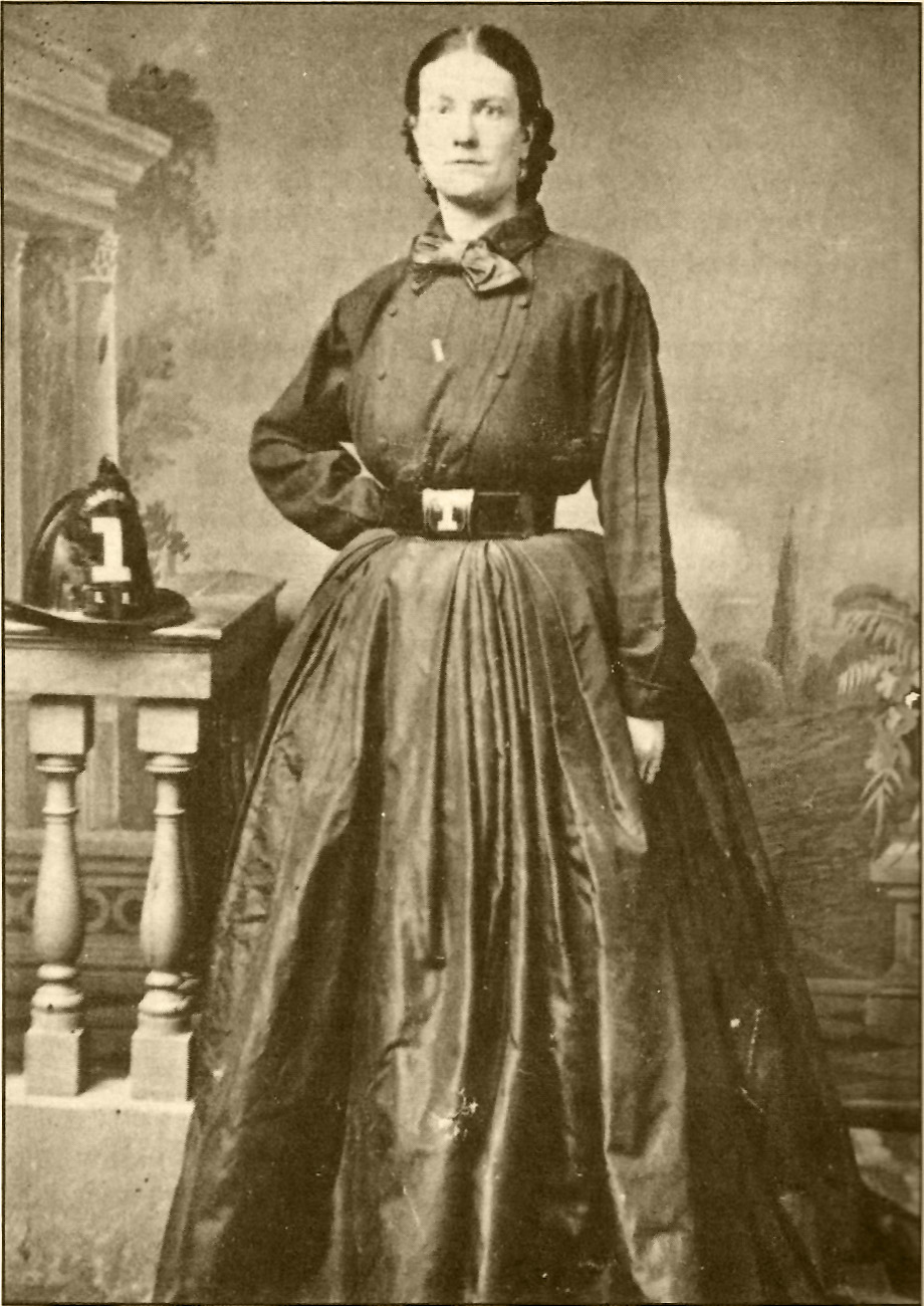 Julia Bulette (1832—1867), Virginia City. Nevada's legendary prostitute “with a heart of gold”